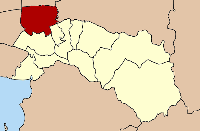 Map of Chachoengsao Province, Thailand, highlighting the district Bang Nam Priao (บางน้ำเปรี้ยว)